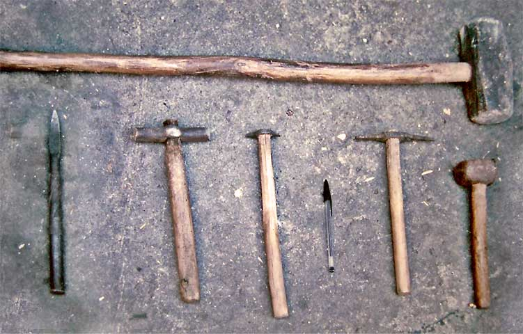 Special hammers and chisel of a Briquero: kraftsman from Cantalejo (Segovia, Spain),for knapping the flint for the threshing-boards